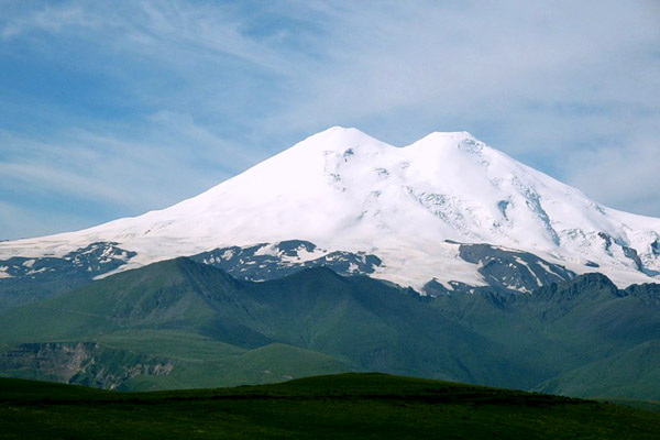 Mount Oshhamaho